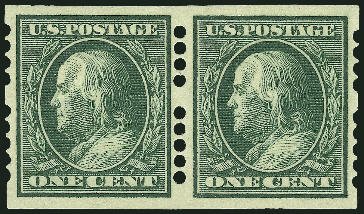 US Postage stamp, coil pair, with Farwell private perforations.